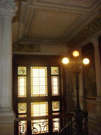 Main staircase of Lieser Castle